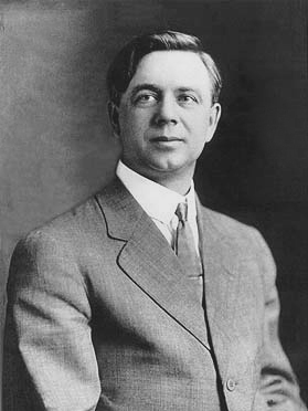 William S. Sadler. Published by the Chautauqua Manager's Association of Chicago in 1915.